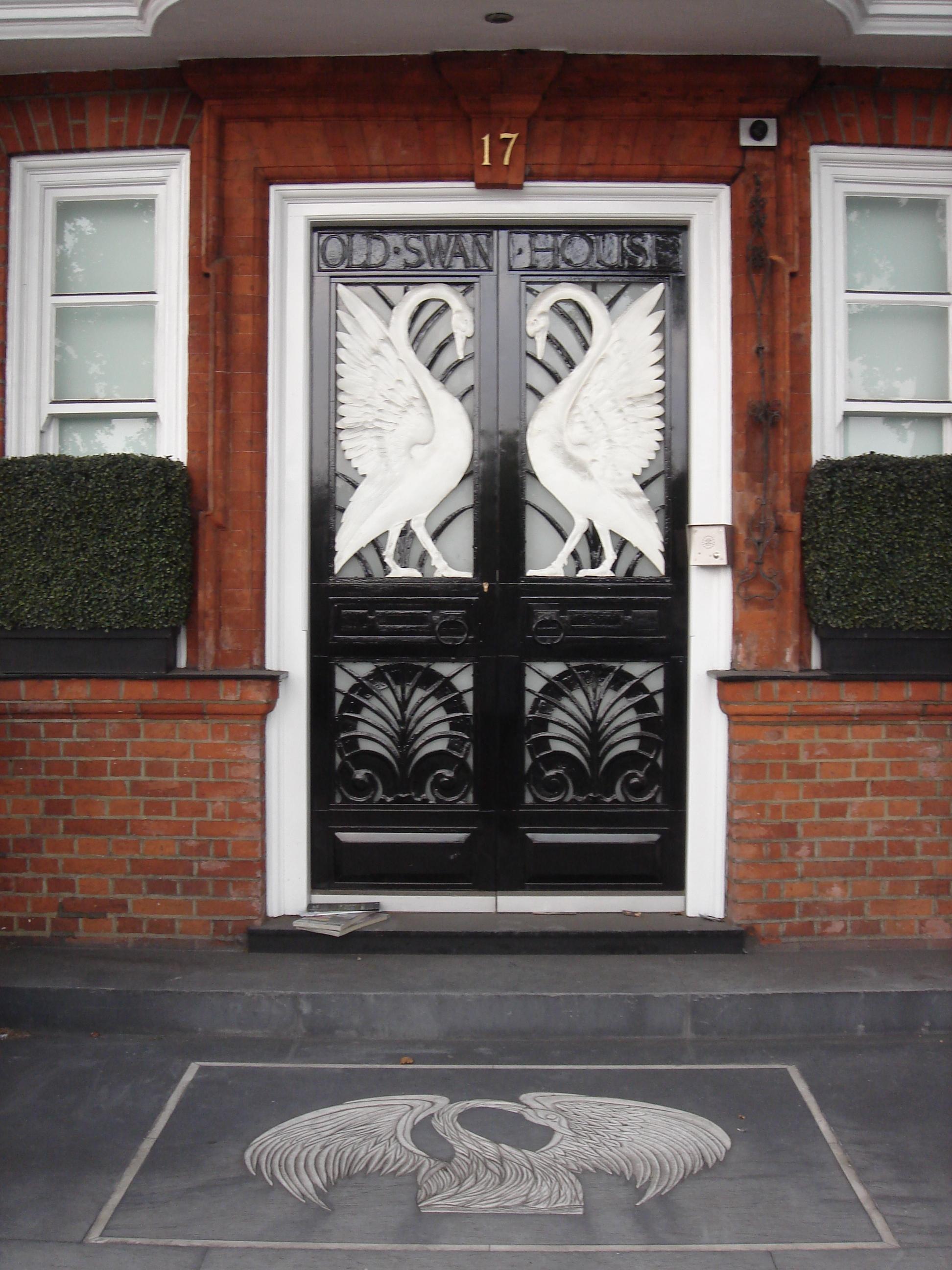 Swan House, 17 Chelsea Embankment, London